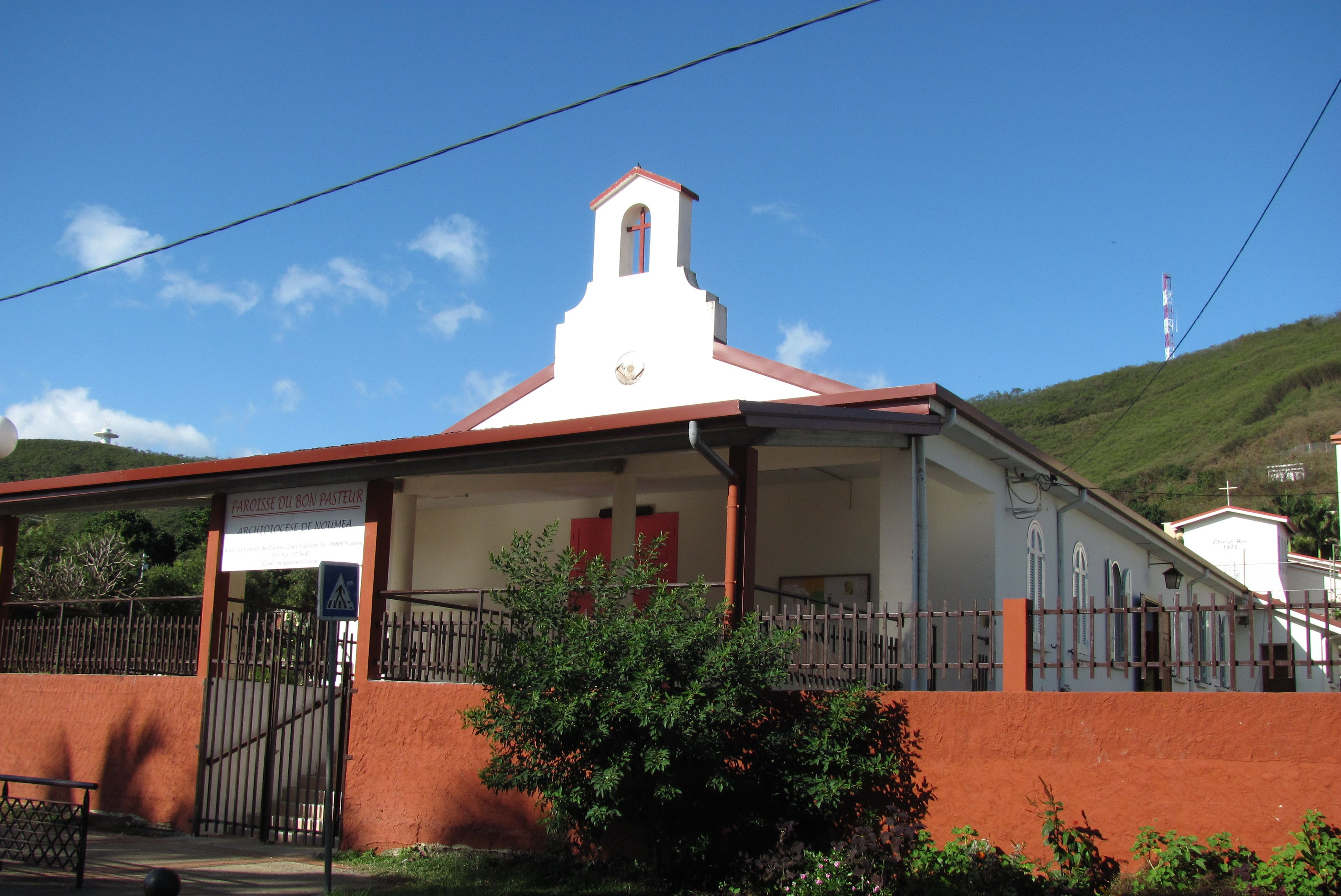 Church "Bon Pasteur", Vallée du Tir, Nouméa, New Caledonia